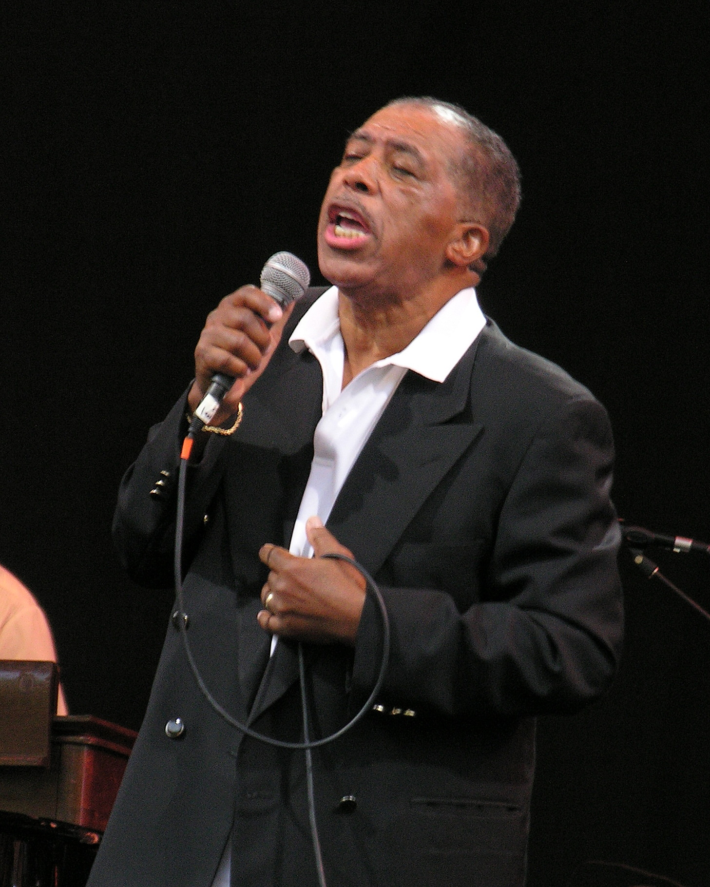 Ben E. King at a concert in New York, July 2007.